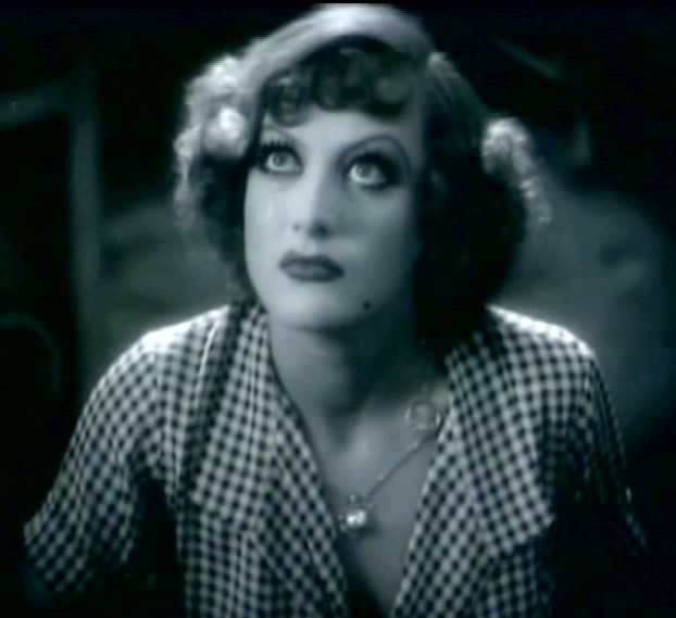 Cropped screenshot of Joan Crawford from the film Rain.